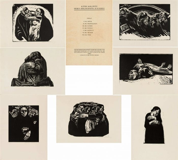 seven woodcuts and portfolio.1922/23. MoMA.